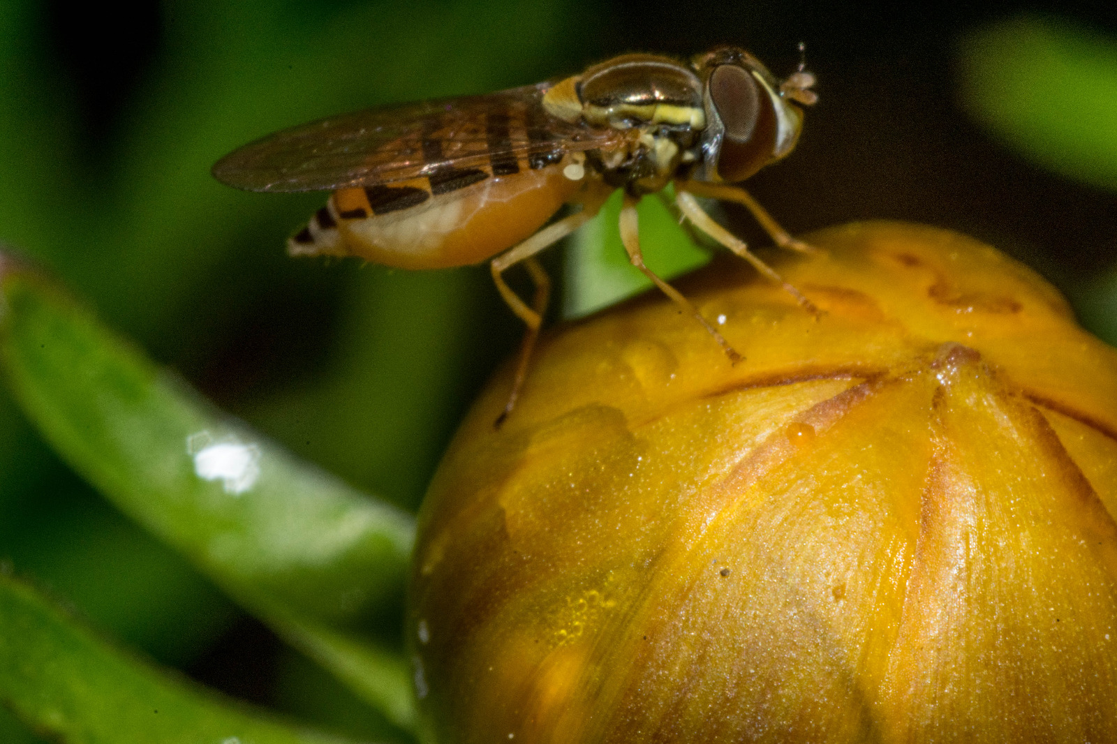 Hoverfly standing on a flower bud